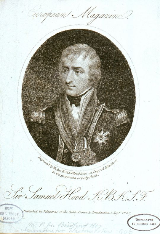 Vice-Admiral Sir Samuel Hood, 1st Baronet KCB RN